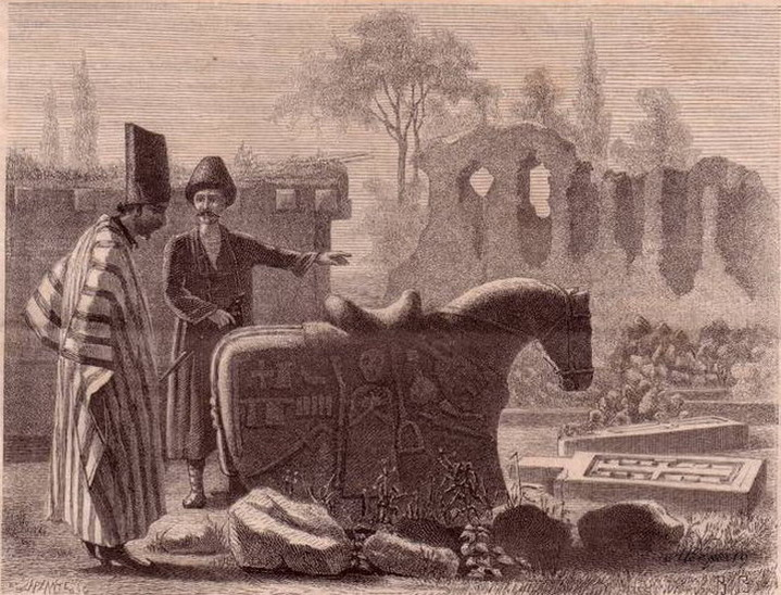 Tatar tomb - Drawing by V. Vereshagin in Shusha